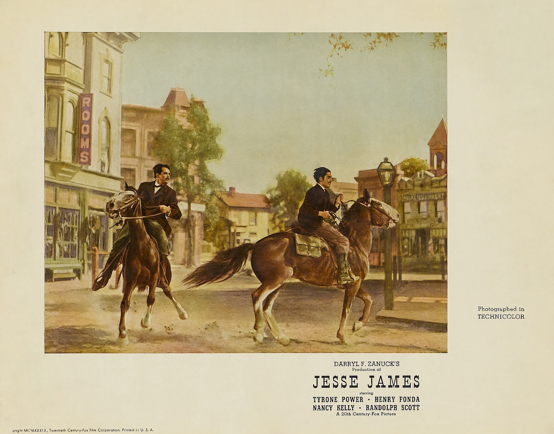 Poster - Jesse James - Directed by Henry King - 1939